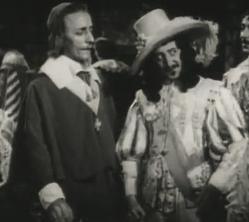 Nigel De Brulier (left) and Rolfe Sedan in The Iron Mask (1929) - cropped screenshot